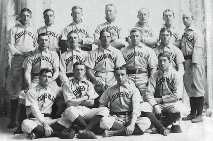 1897 Louisville Colonels Top Row: L-R: Joe Dolan (2B/SS), Abbie Johnson (2B), 'Still' Bill Hill (P), Perry Werden (1B), Bill Wilson (C), Dick Butler (C), General Stafford (SS). Middle Row: L-R: Bill Clark (IF), Billy Clingman (3B), Fred Clarke (LF/Mgr.), Honus Wagner (CF), Billy Magee (P). Bottom Row: L-R: Roy Evans (P), Bert Cunningham (P), Chick Fraser (P), Charlie Dexter (UT).